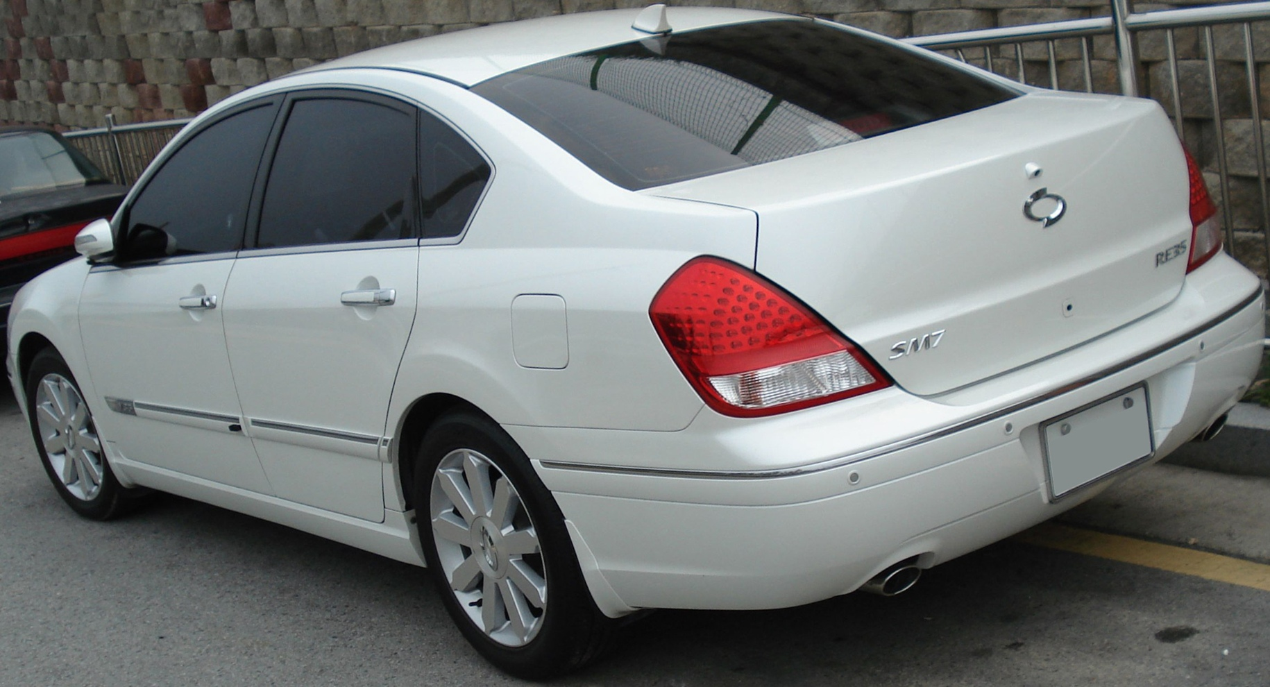 Renault Samsung SM7